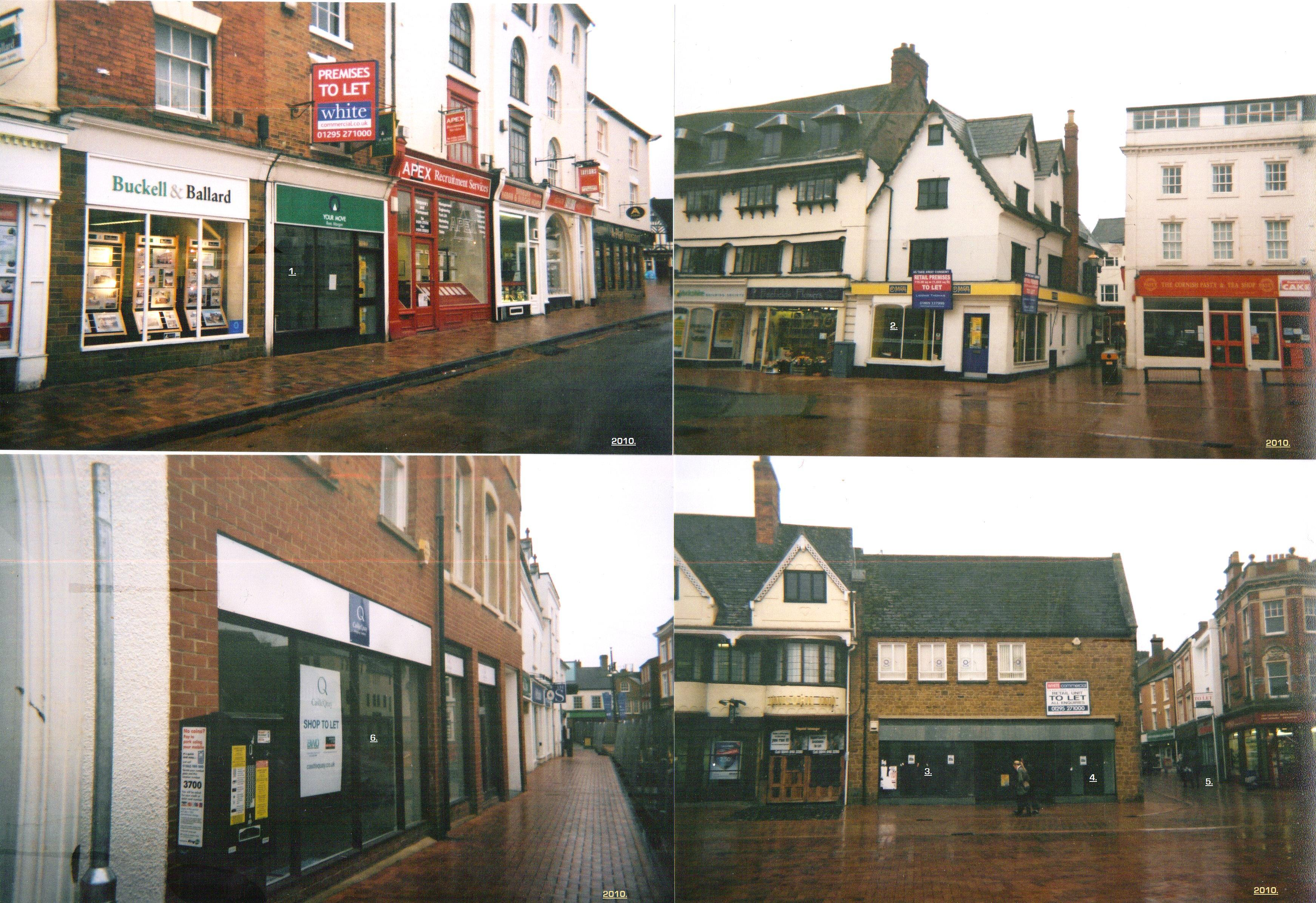 I took the picture of these closed Banbury shops in 2010. They all closed in 2009, except for Skills Center, which closed in 2010. I here by release it in to the public domain. 1/ Your Move estate agents. 2/ Bagel Bite cafe. 3/ Dolphin Bathrooms. 4/ Moben Kitchens. 5/ Chicken Hut café. 6/ Skills Center recruiting agency.